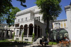 Stuck Villa in Munich, Bavaria: courtyard.